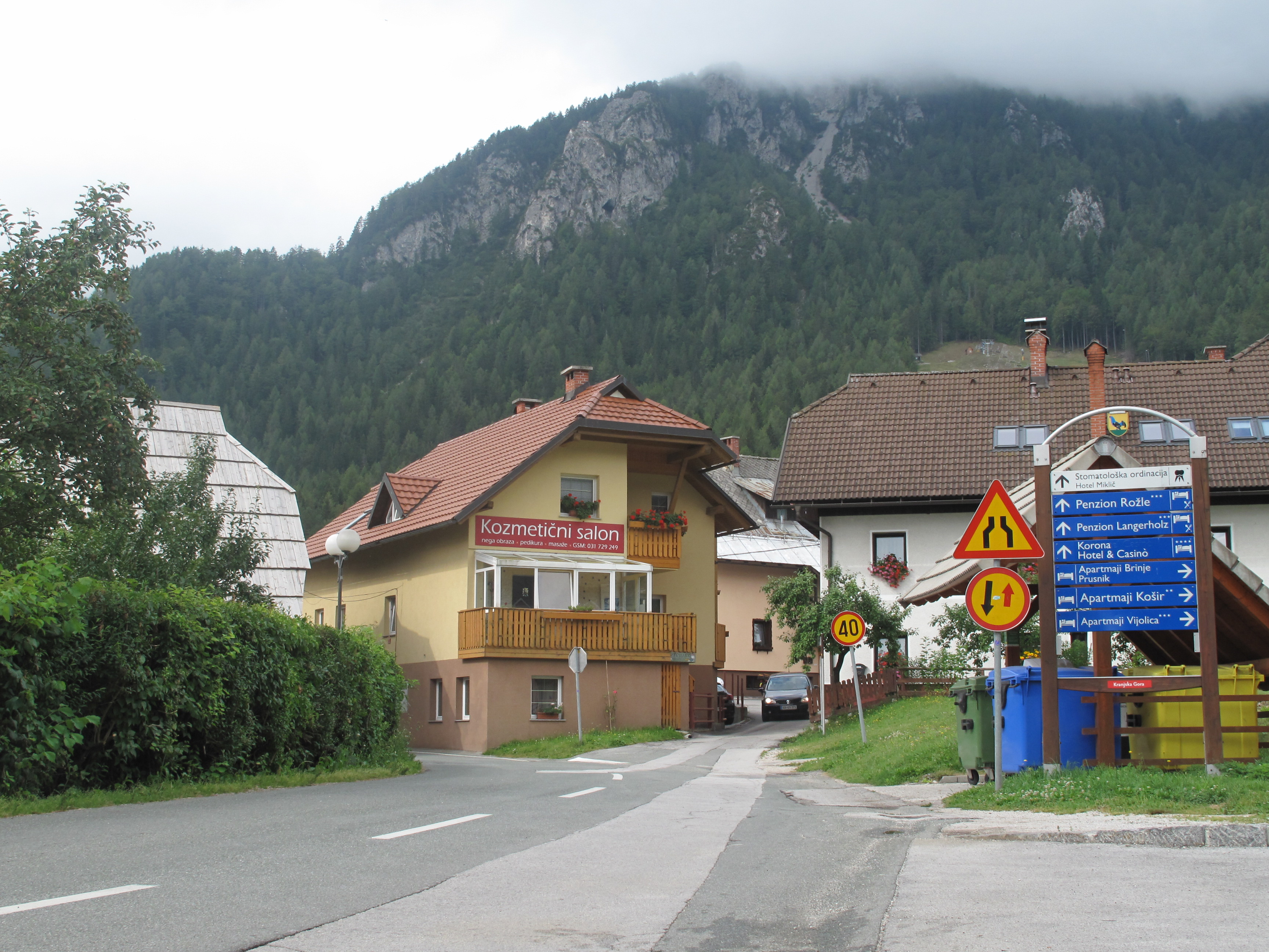 Kranjska Gora, town entry